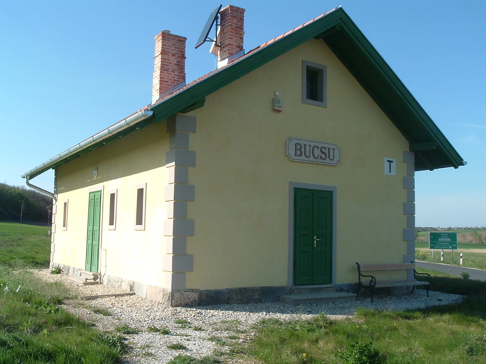 The old railway station in Bucsu, Hungary